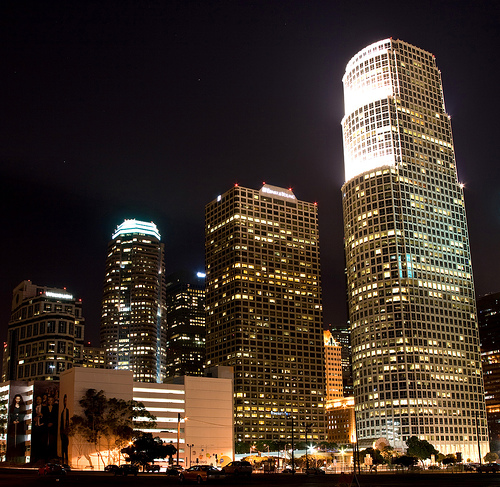 Figueroa Street in Downtown LA's Financial District